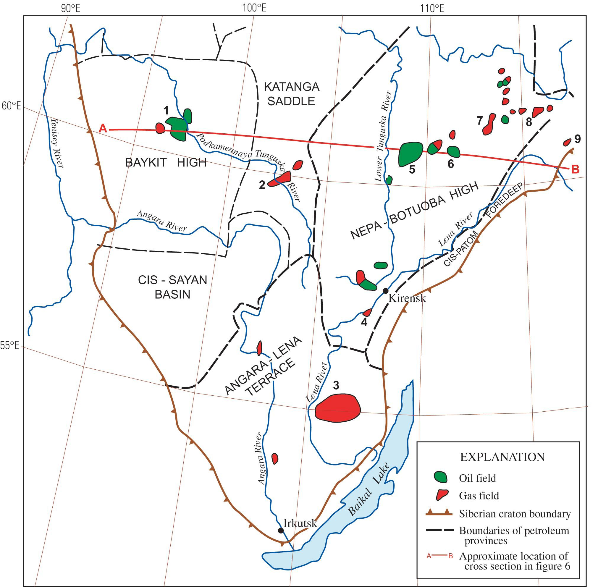 Petroleum Geology and Resources of the Nepa-Botuoba High, Angara-Lena Terrace, and Cis-Patom Foredeep, Southeastern Siberian Craton, Russia